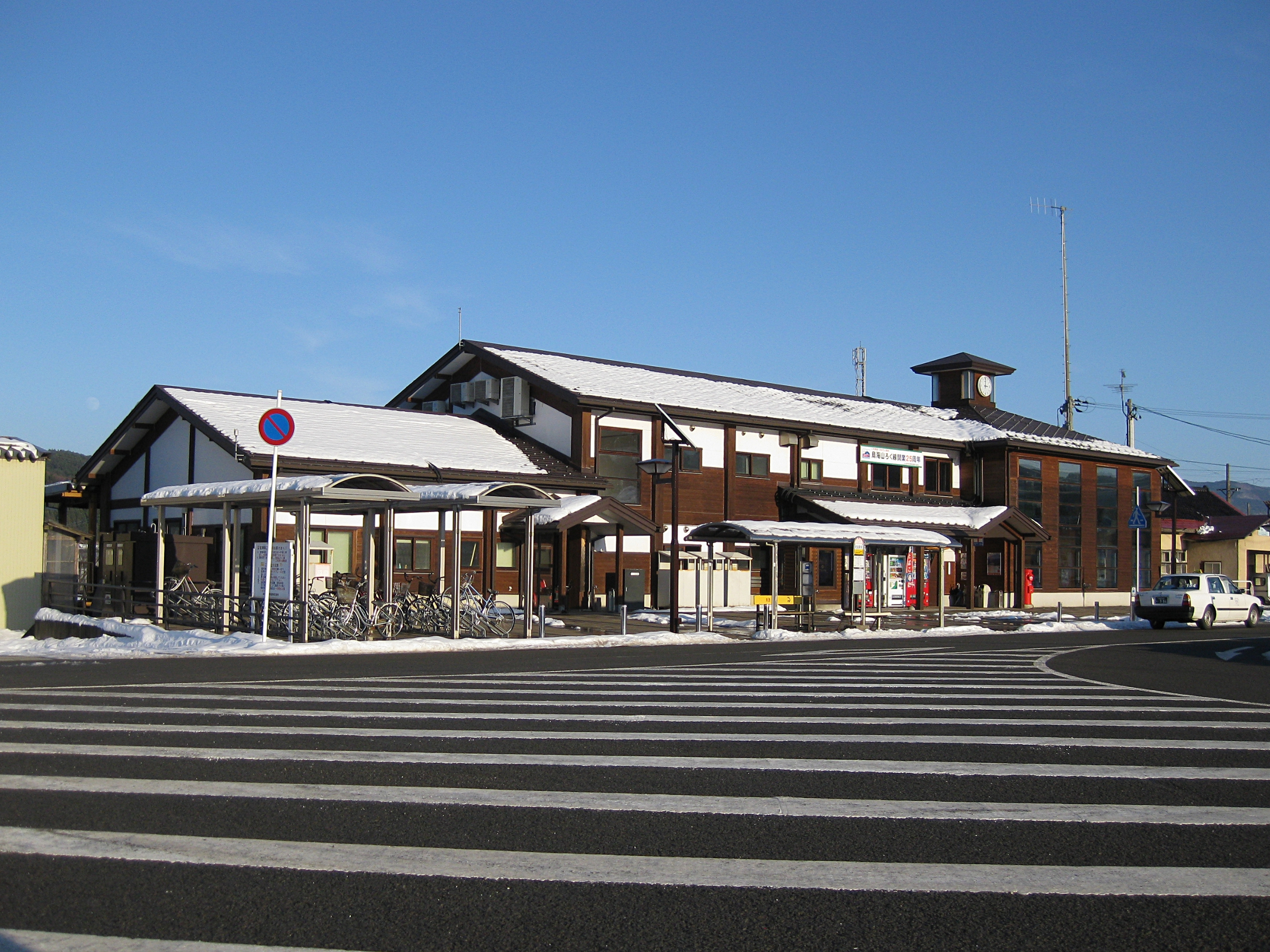 Yashima Station in Yurihonjo, Akita, Japan.